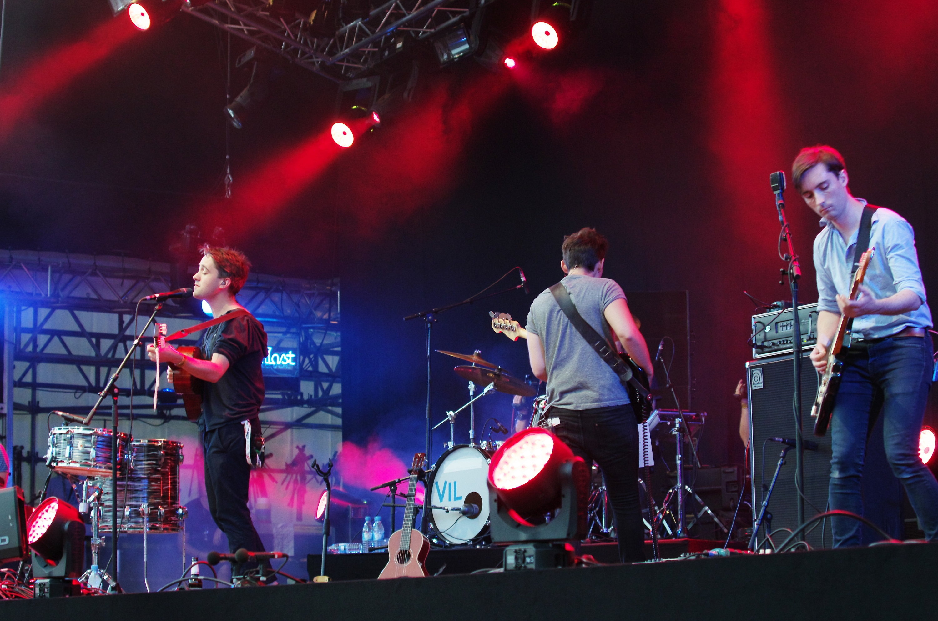 Indie folk rock band Villagers from Ireland at Haldern Pop Festival 2013. Members: Conor J. O'Brien - vocals, acoustic guitar; Tommy McLaughlin - electric guitar, mandolin, backing vocals; Daniel Snow - bass, guitar: Cormac Curran - keyboards, backing vocals; James Byrne - drums